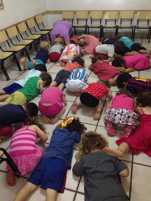 A kindergarden in central Israel during a rocket alarm (Photo credit: Siven Besa) 16/7/14 For more updates: The Israel Defense Forces Facebook The Israel Defense Forces blog Follow us on Twitter